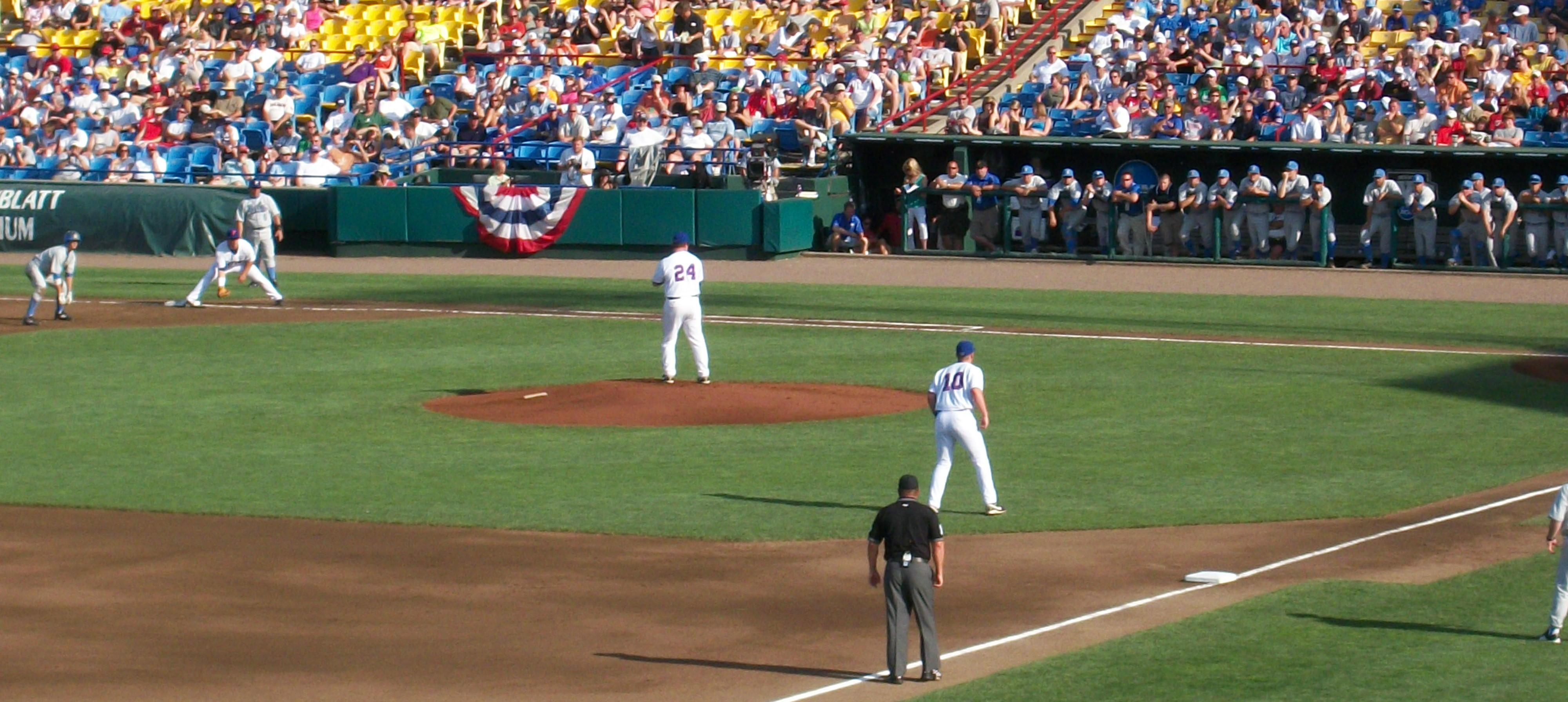 Florida and UCLA play game two at the 2010 College World Series at Johnny Rosenblatt Stadium in Omaha, Nebraska, USA.